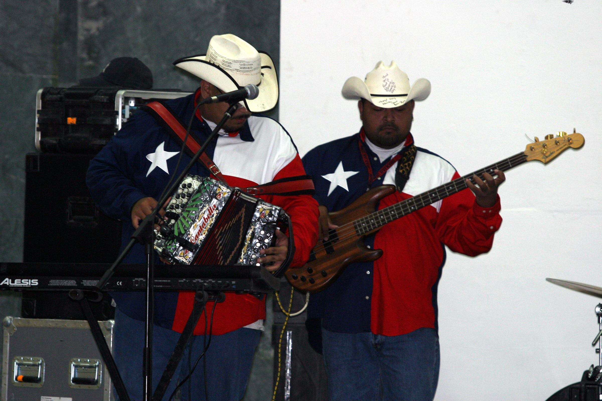 Lumbre band members Mario Vigil, accordion player, and Pedro Rodriguez, guitarist, play at the Camp Fallujah base theater May 5. The band plays a variety of music, from tejano to country to rock, and also has a wide range of fans. The lead vocalist, Gerald Quezada, said he owes a million thanks to the troops and what they do. Fallujah was the last stop on their Middle Eastern trip.